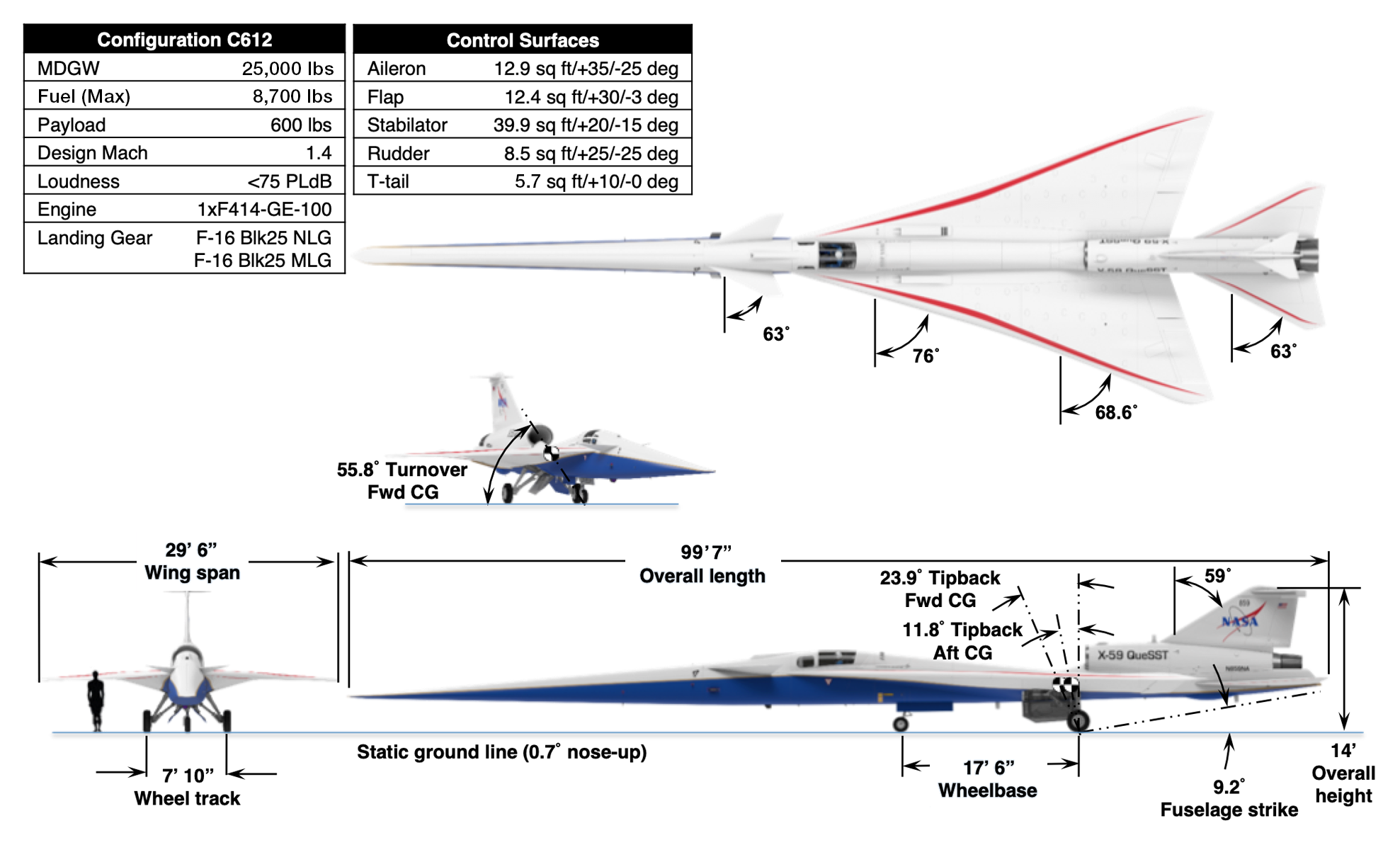 Four-view drawing of US experimental aircraft X-59.